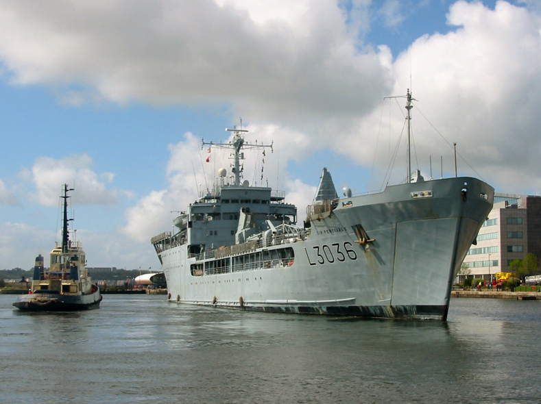 Manouvering in the Roath Basin, Cardiff